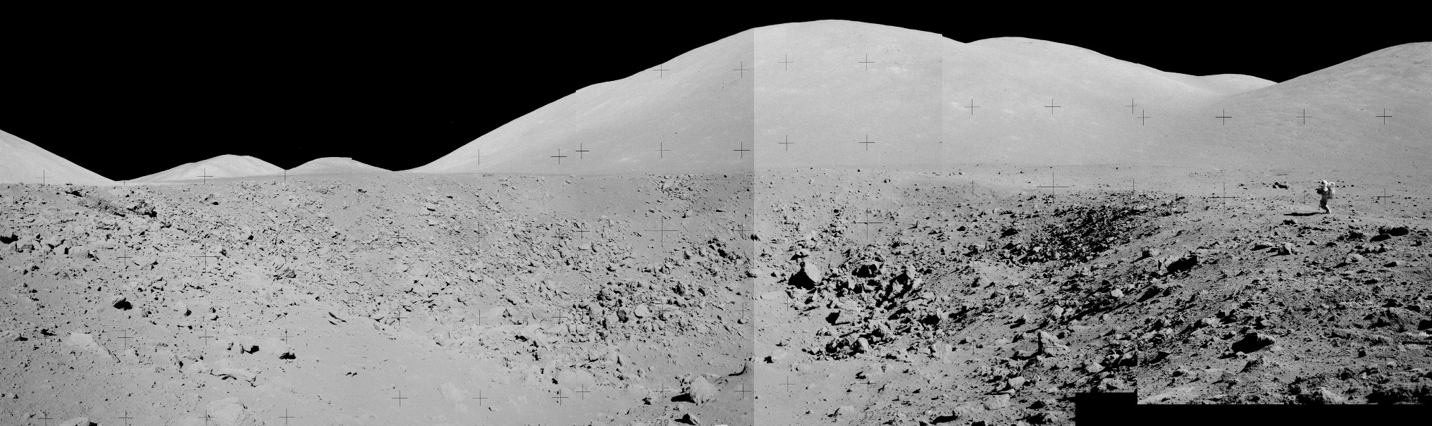 Van Serg crater, Taurus–Littrow valley, the moon. Mosaic of six images taken at Geology Station 9 on the Apollo 17 mission. Facing west. Astronaut Eugene Cernan is at right. The mountain on the horizon is North Massif.